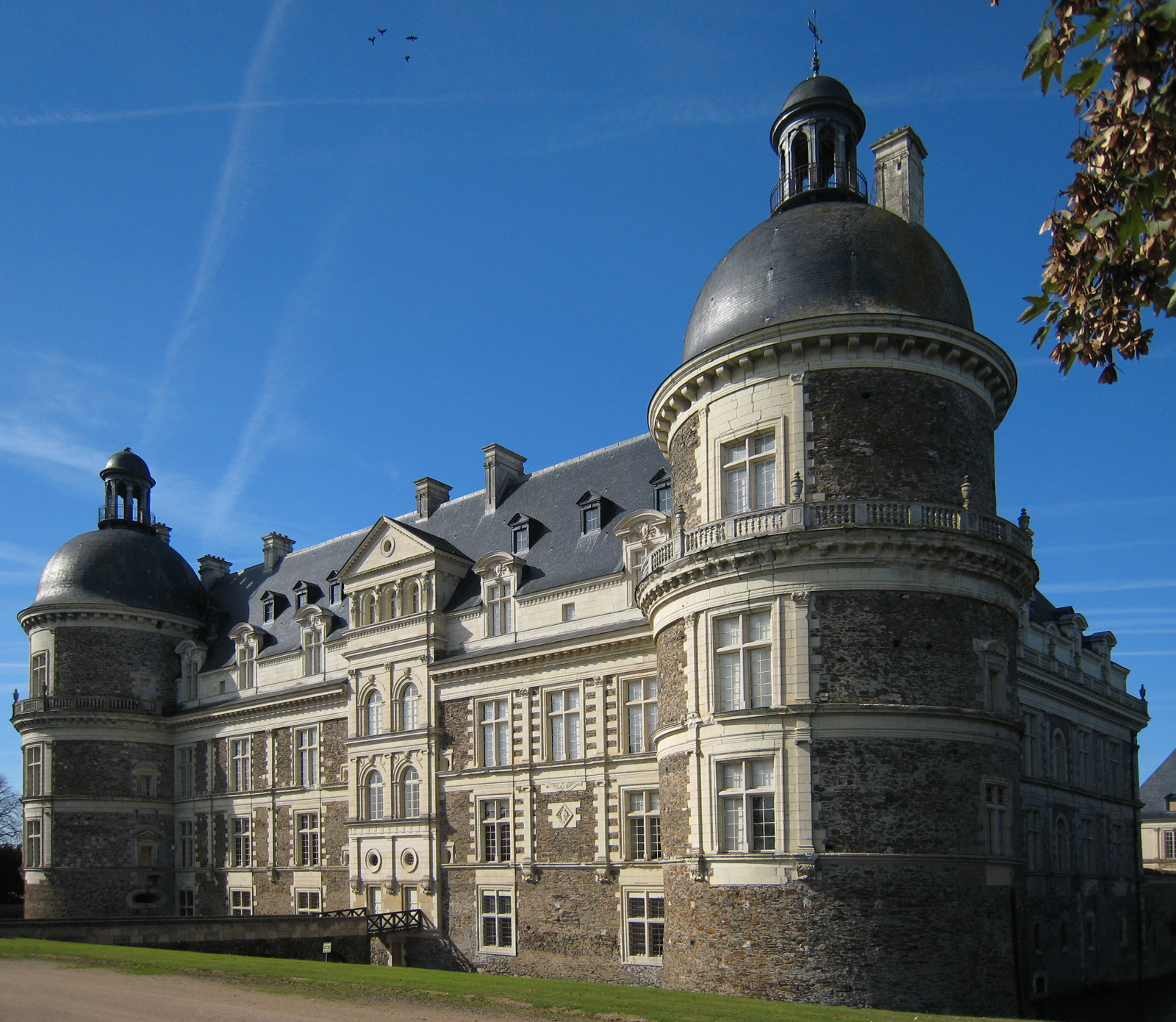 Castle Serrant, located near the village of Saint-Georges-sur-Loire, 15 km west of the town of Angers, in the county of Maine-et-Loire/France